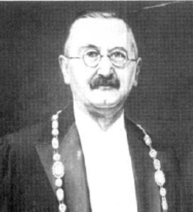 Karl Wilhelm von der Aa (born January 7, 1876 in Bremerhaven, † January 1, 1937 in Leipzig) was a German business educator.